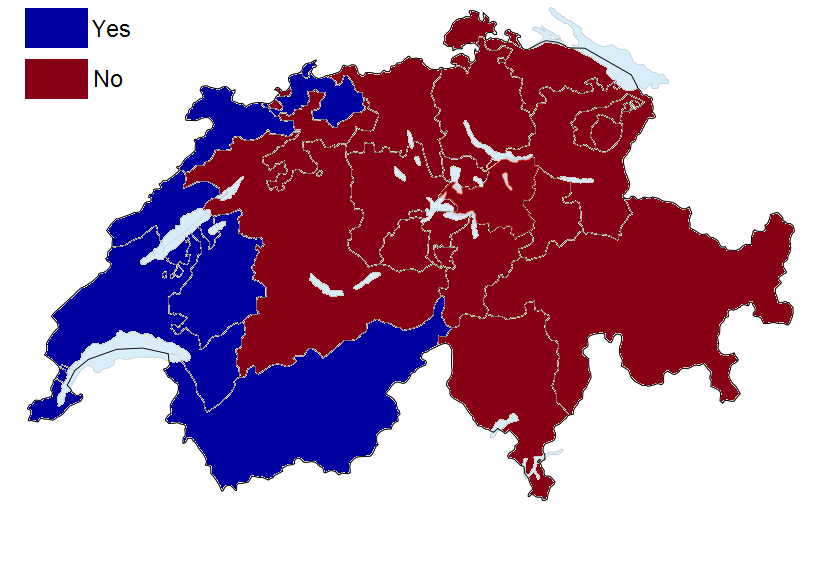 Swiss European Economic Area membership referendum result by cantons, 1992